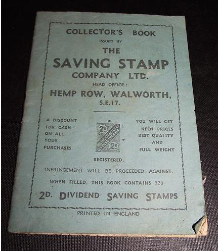 British dividend saving stamp collecting book. Circa mid twentieth century.